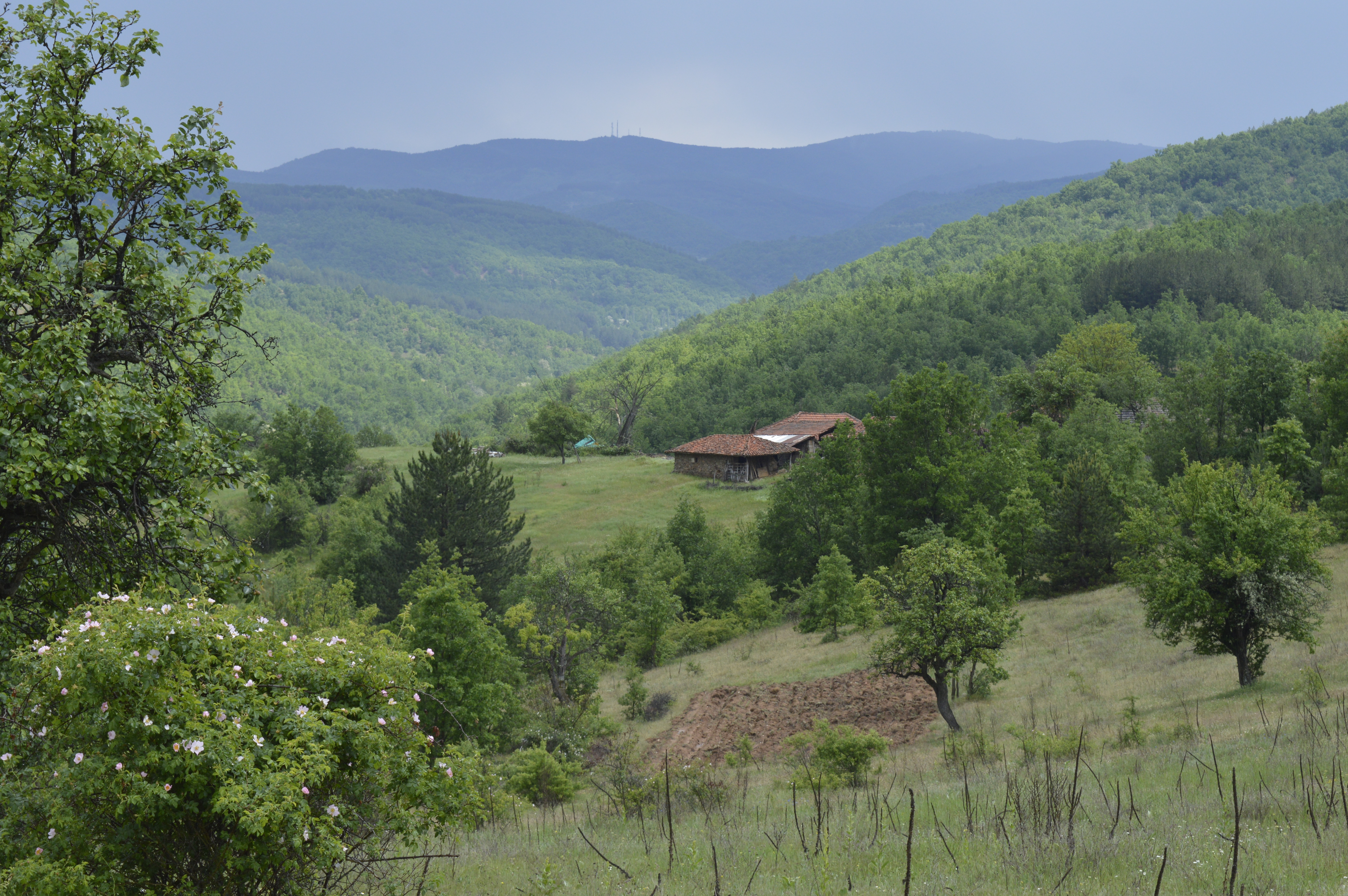 House of Dedo Mitko in the village Dramče